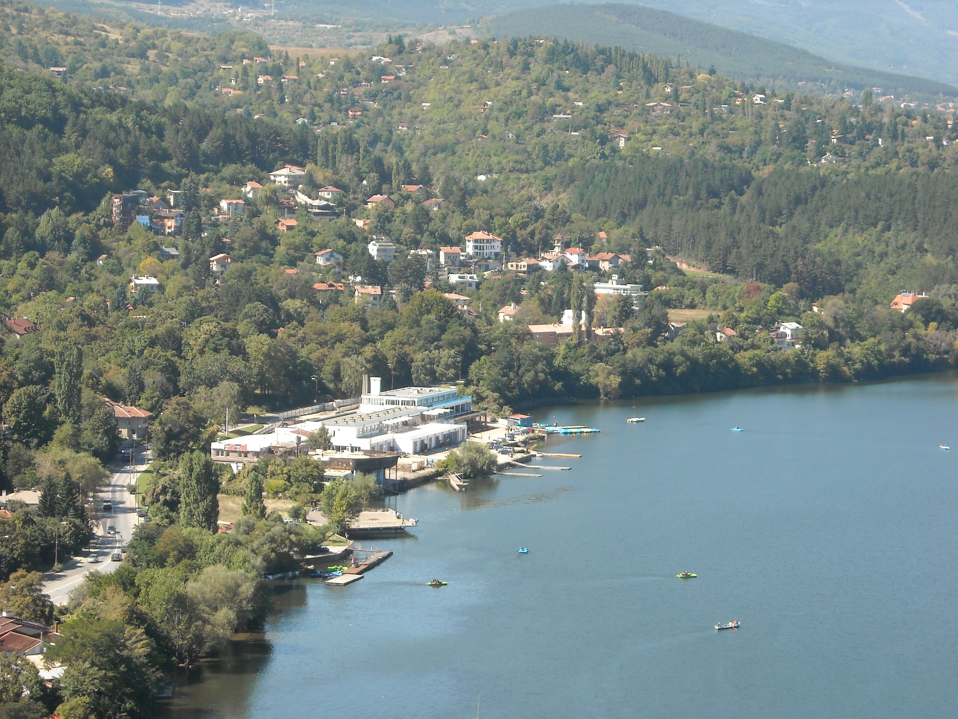 Rowing center "Sredetz" on the Pancharevo Lake near Sofia, Bulgaria